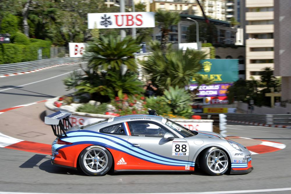 Sébastien Loeb driving a Porsche 991 GT3 Cup on the Monaco circuit for the 2013 Porsche Supercup Monaco event.